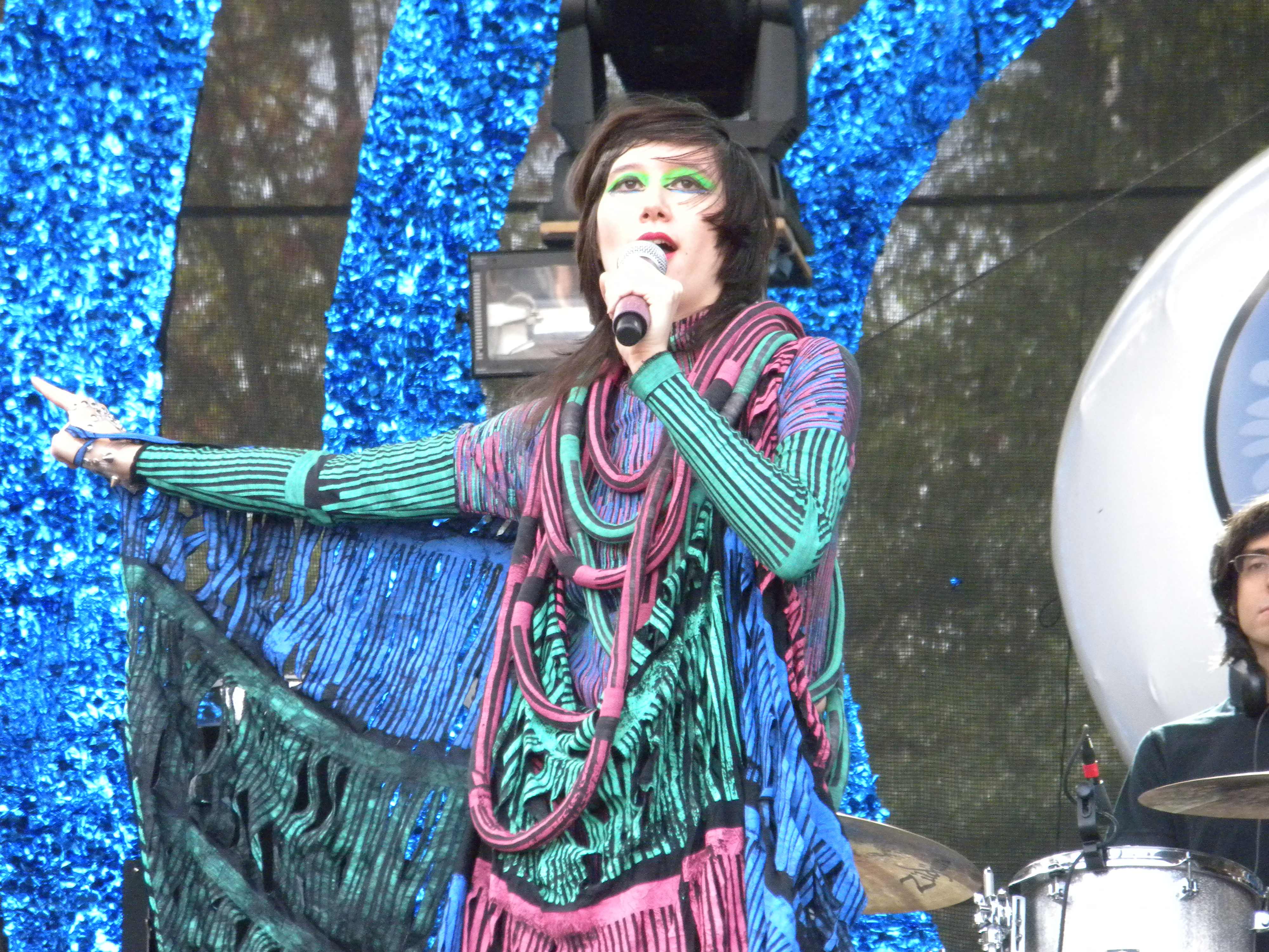 Karen O performing with her band Yeah Yeah Yeahs at Bumbershoot '09